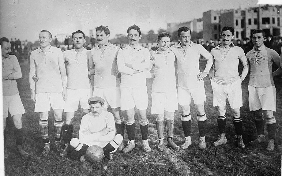 The football team of "BFC Viktoria", Berlin (Germany), circa 1910-1913.